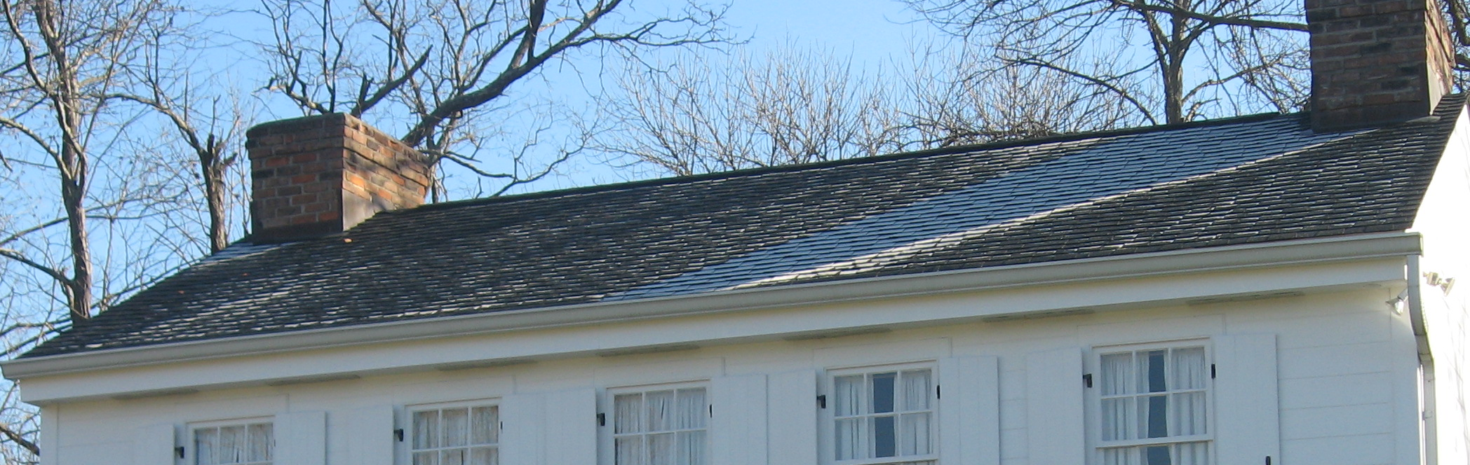 Roofline of the Othniel Looker House, located at 10580 Marvin Road north of Harrison in Harrison Township, Hamilton County, Ohio, United States. Built in 1805 and the home of Ohio governor Othniel Looker, it is listed on the National Register of Historic Places. The snow on the roof is an example of solar gain — light snow had fallen overnight, and as temperatures were around freezing, sunlight melted snow but could not affect snow in the shadow of the chimney.